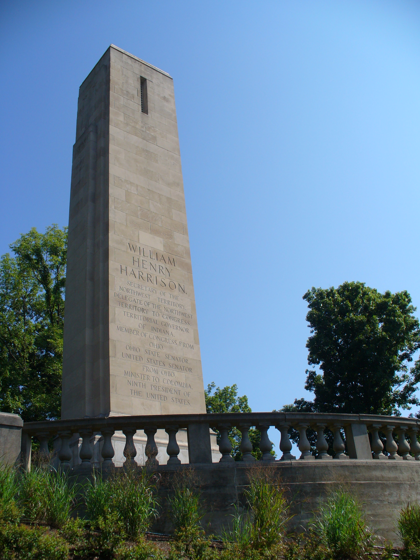 Memorial at William Henry Harrison's tomb.